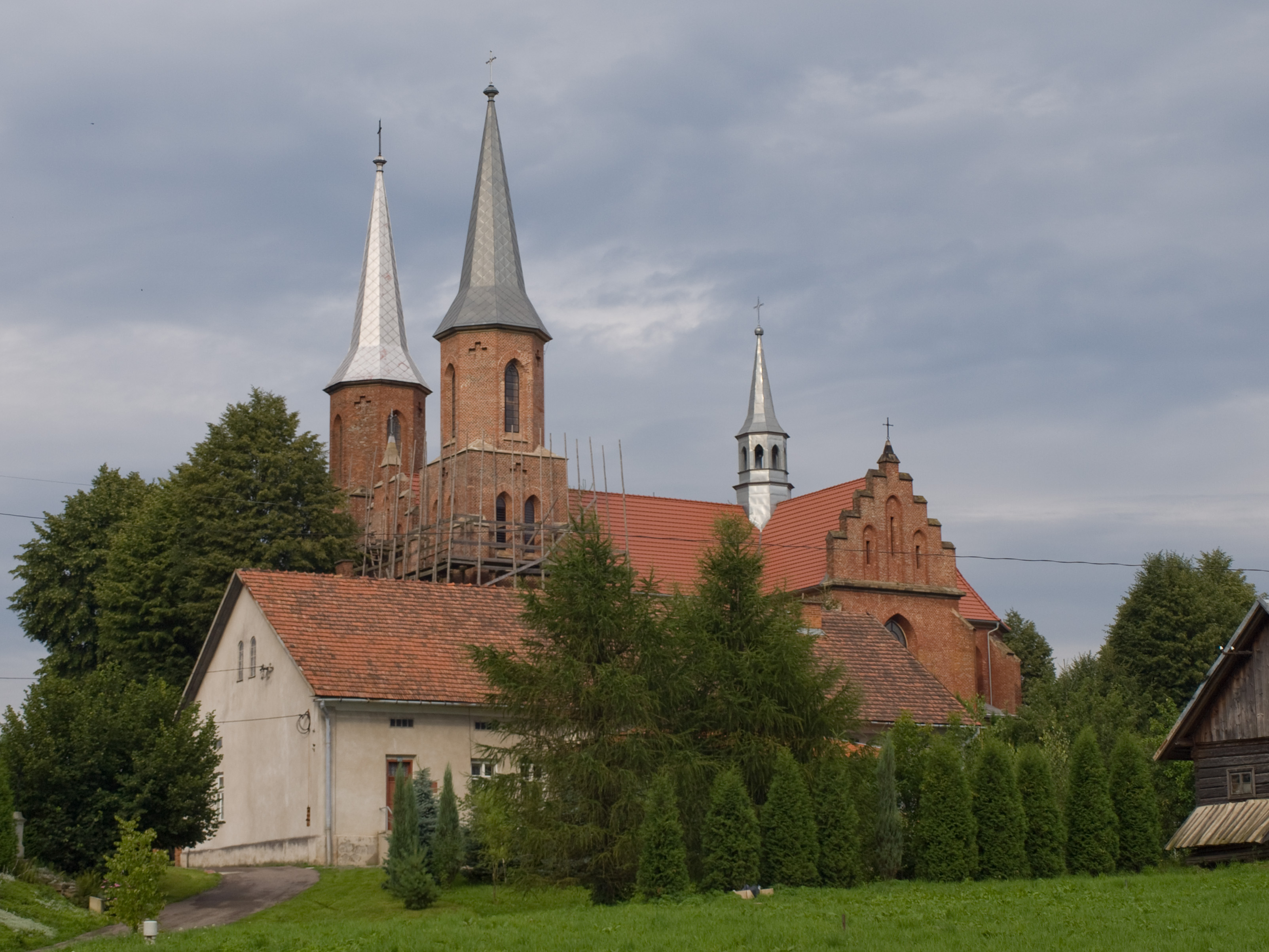 Church, Odrzykoń, Subcarpathian Voivodeship